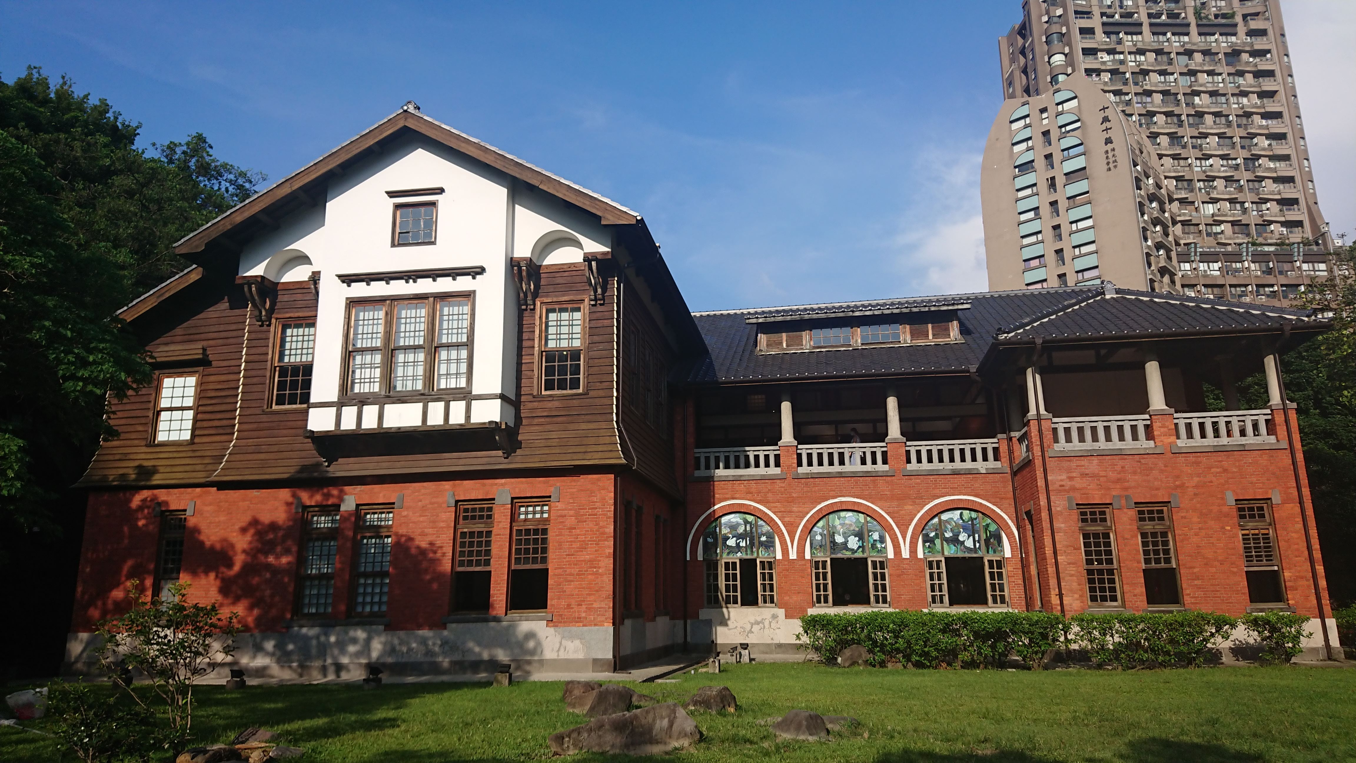 Former public Onsen in Beitou, now a museum.